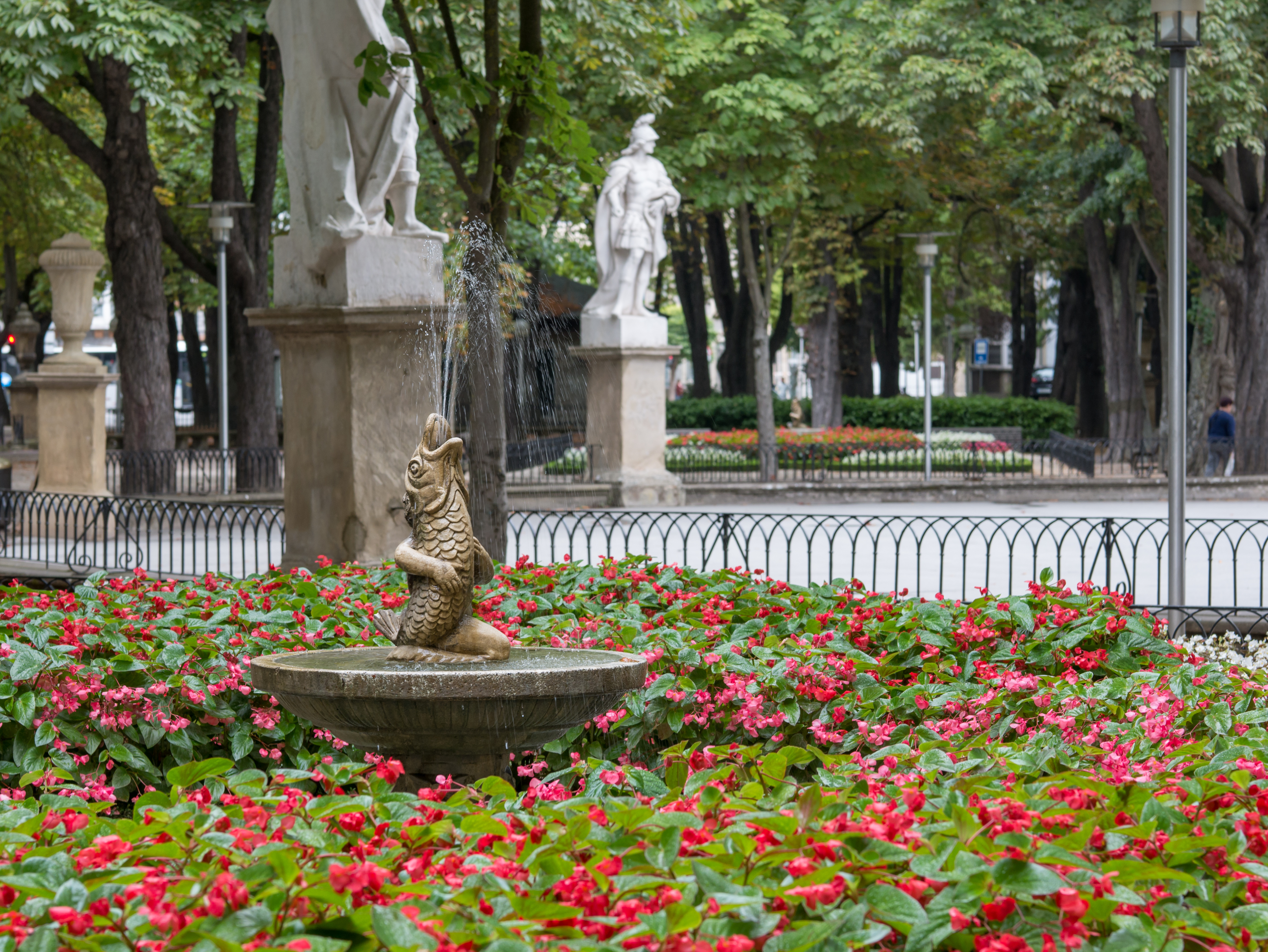 Fountain in the city park La Florida. Vitoria-Gasteiz, Basque County, Spain